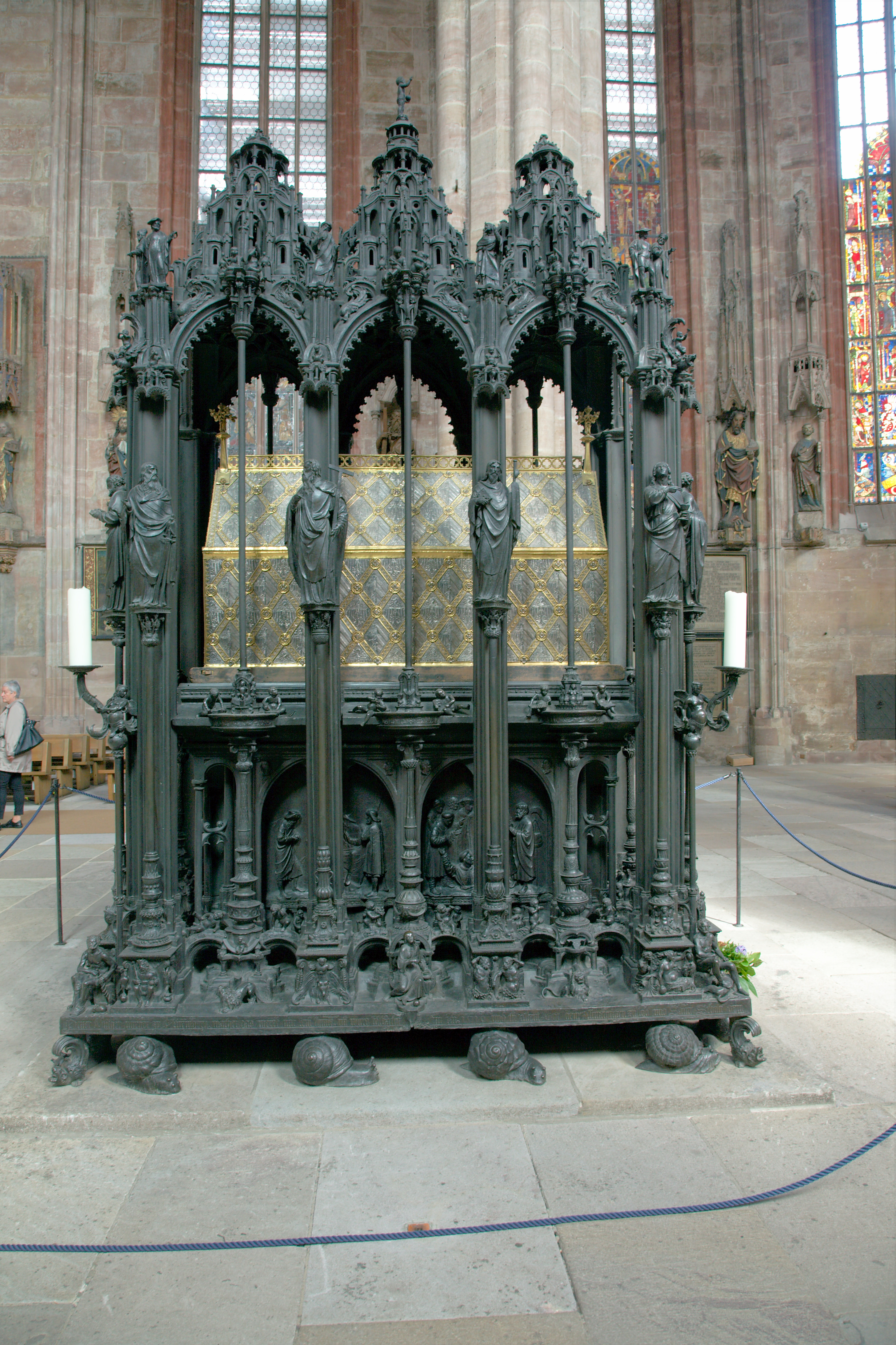 Grave of St.Sebaldus in Nuremberg